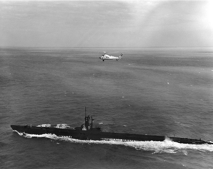 USS Balao (AGSS-285) exercising with a Brazilian S2F anti-submarine airplane and H-34 (HSS-1) helicopter off Key West, Florida, 7 March 1961. The Brazilian helicopter is flying over the submarine in this view. Balao is a unit of Submarine Squadron Twelve, whose insignia is visible on her fairwater, directly over her hull number.